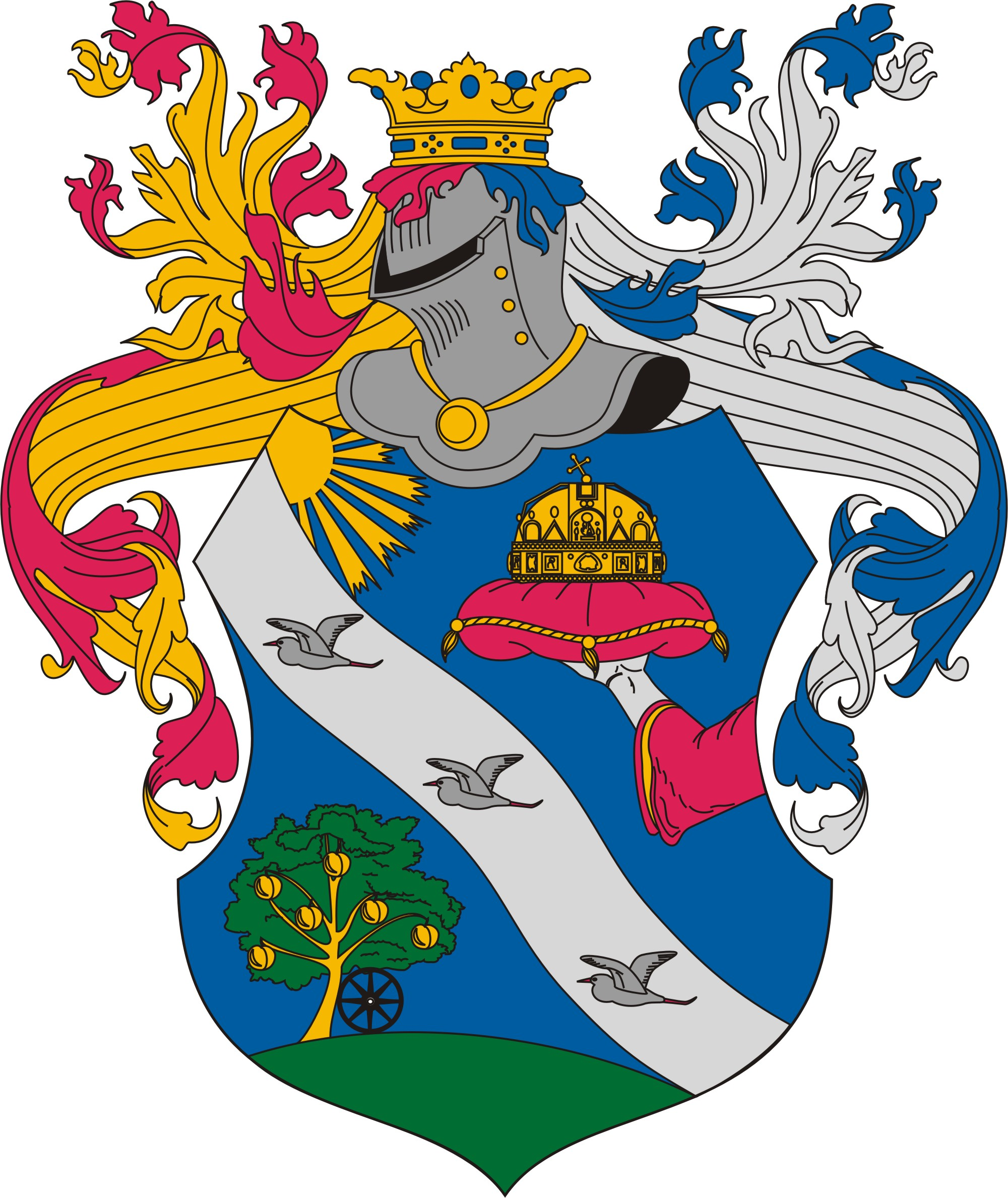 Coat of arms of Szatymaz, Hungary